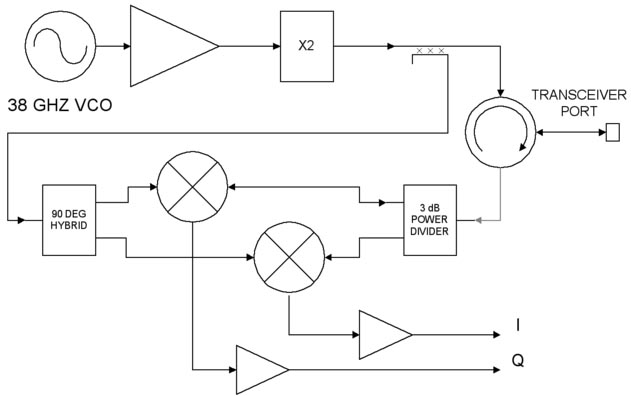 MMIC Transceiver Design for an Automotive Collision Avoidance System (ACAS)